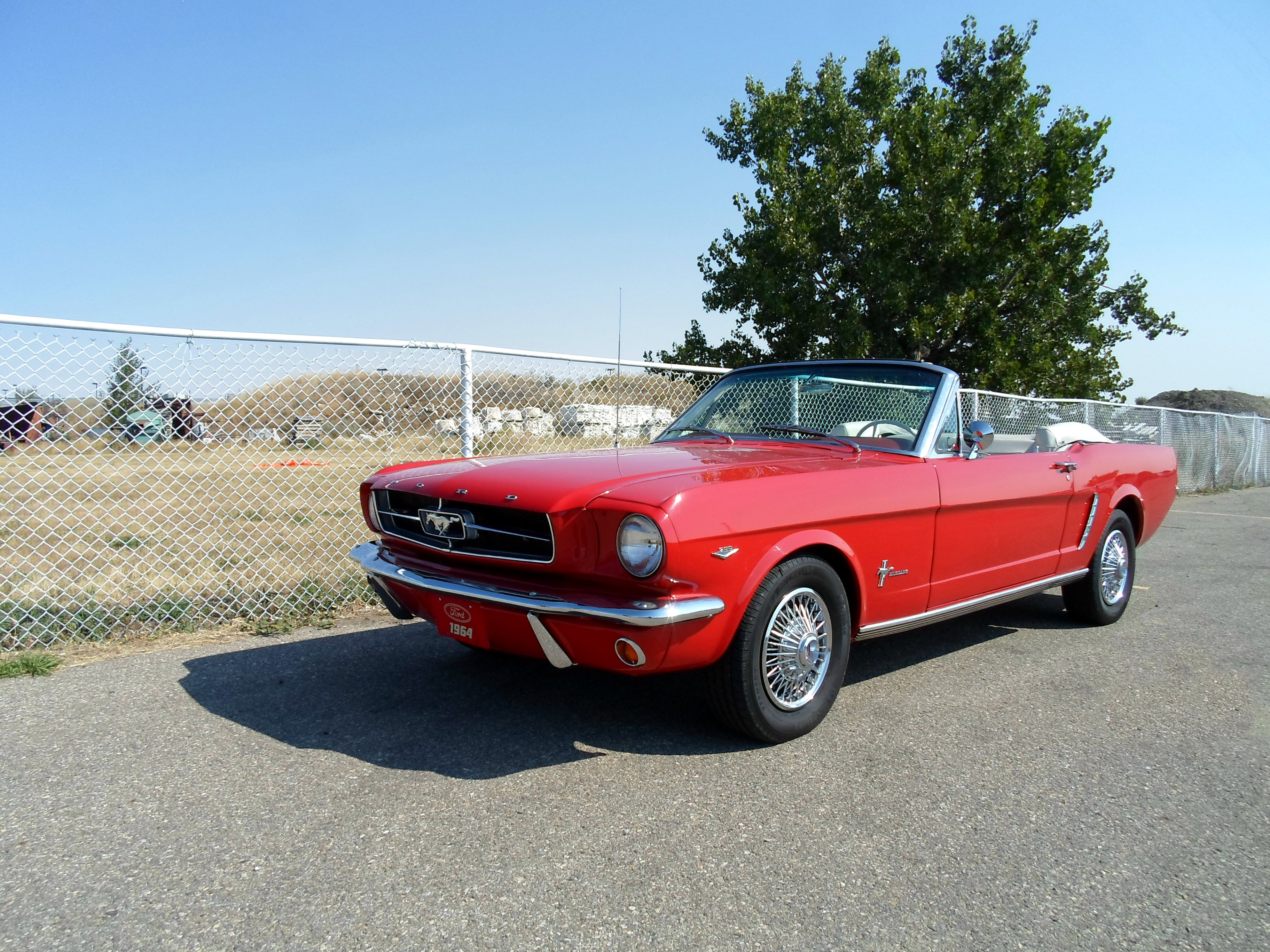 Classic Mustang outside the local farmer's market.